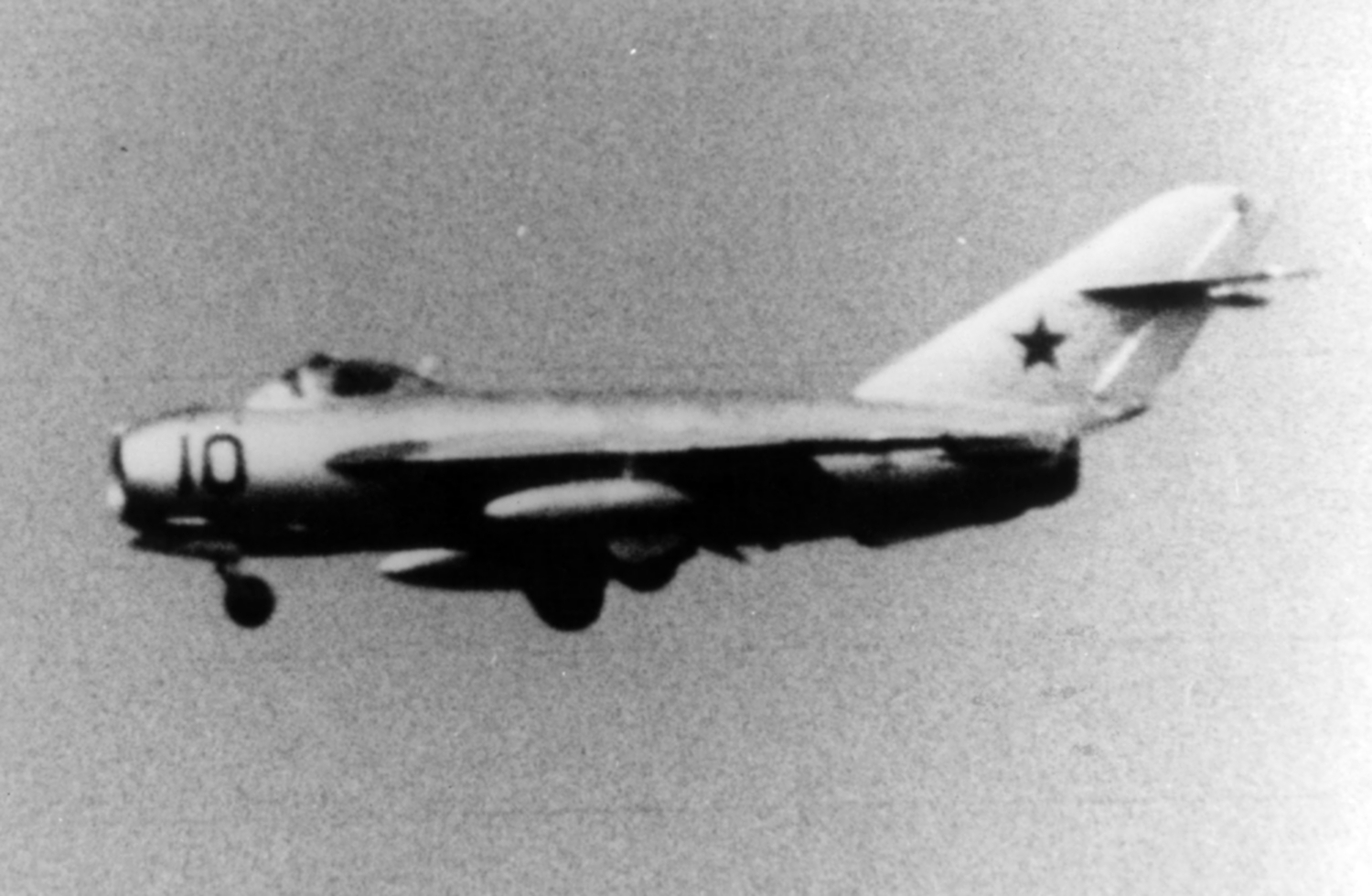 A Soviet Mikoyan-Gurevich MiG-17 in flight with its landing gear extended.